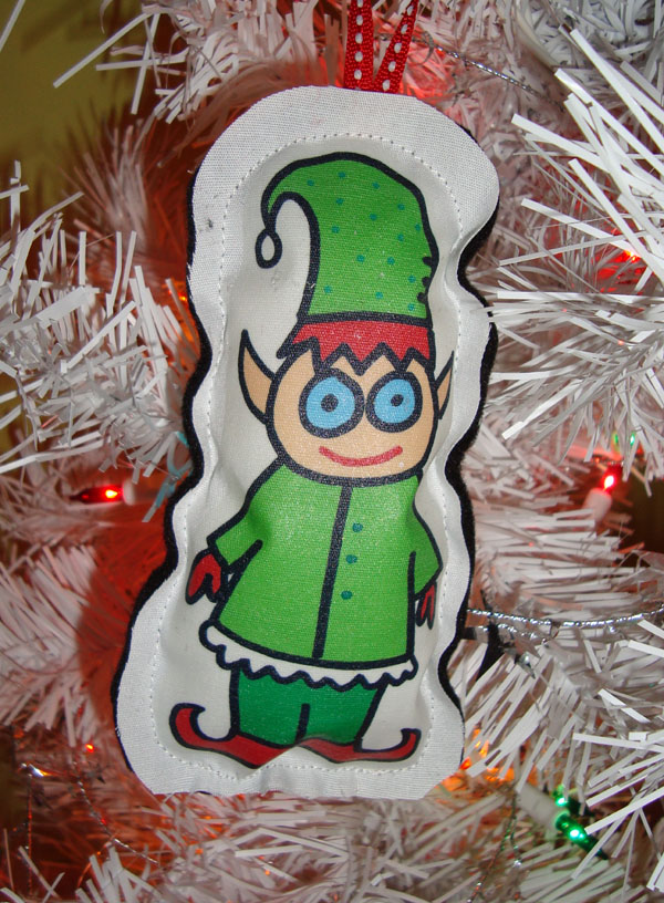 An image of a modern Christmas elf on a Christmas tree decoration.